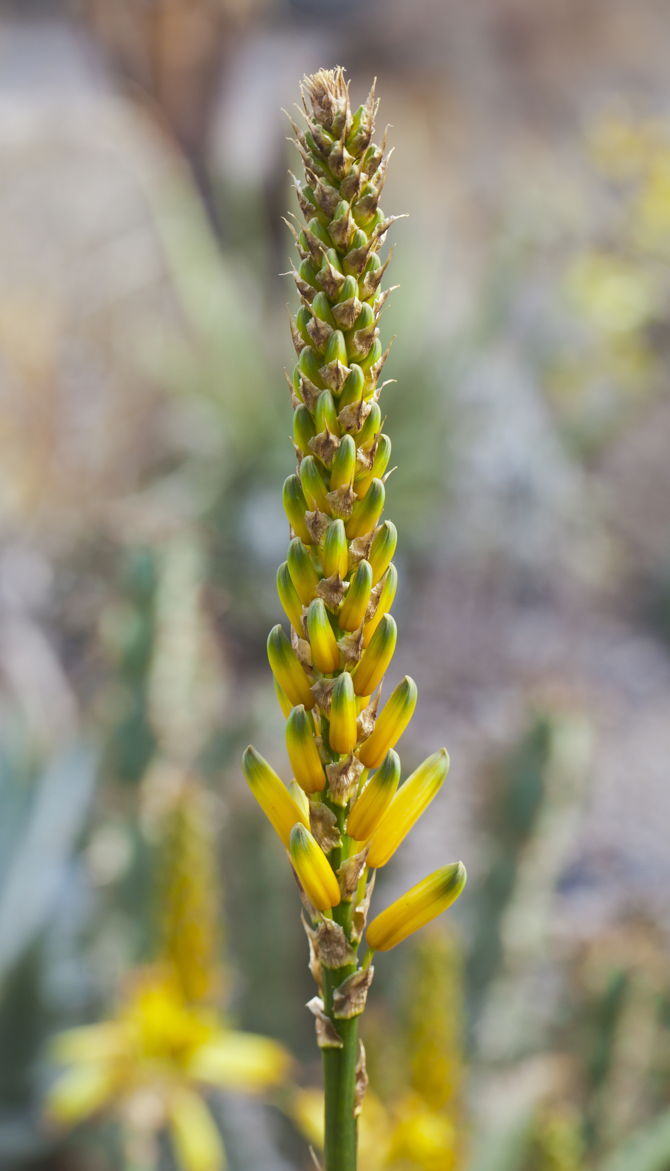 Aloe cryptopoda, Jardín Botánico de Múnich, Alemania